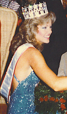 Julie Hayek after winning the Miss USA 1983 pageant, held 21 May 1983 at the Knoxville Civic Center in Knoxville, Tennessee